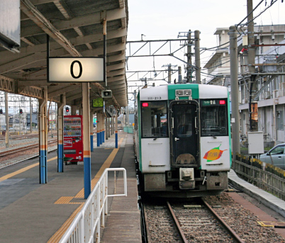 Platform No.0 in Sakata Station (Yamagata) (Sakata City, Yamagata Prefecture, Japan.)